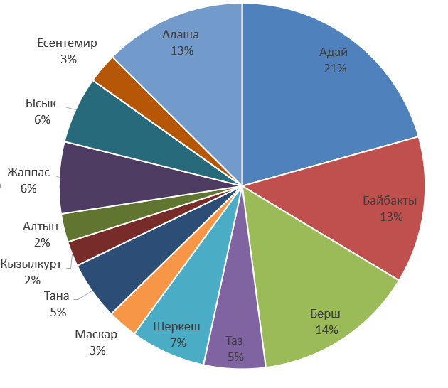 Baiuly composition at begin of 20 century